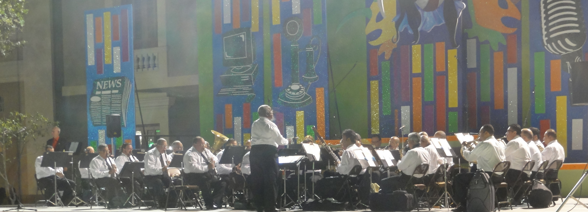 Banda Municipal de Ponce en Ponce, Puerto Rico (12 Feb 2012)